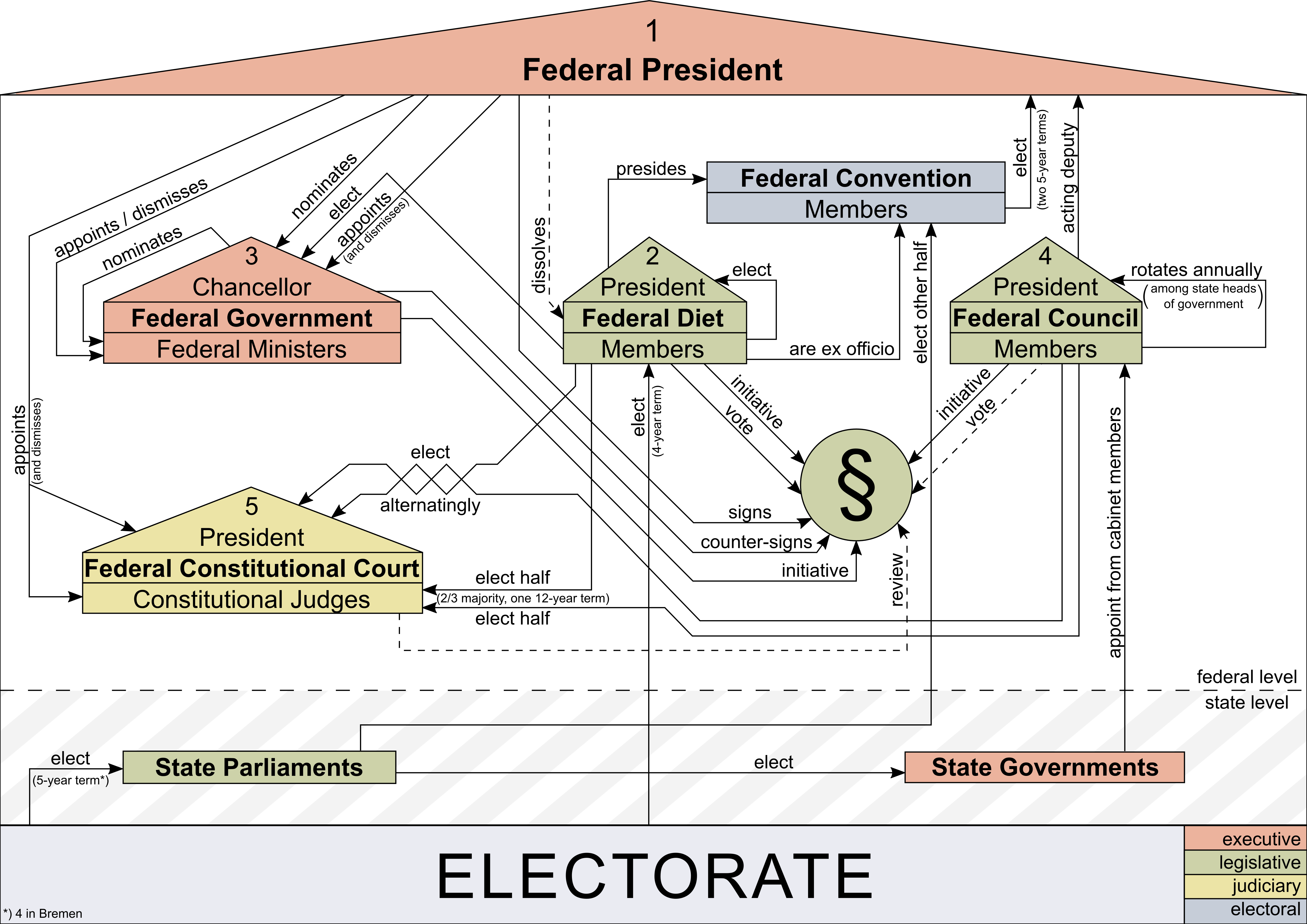 Political system of Germany executive legislative judiciary electoral numbers: order of precedence dashed arrows: under conditions too intricate to map here